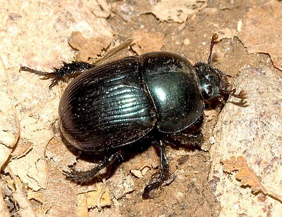 Geotrupes balyi